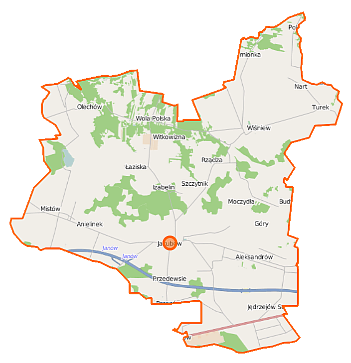 Map of Gmina Jakubów, Poland This map of Jakubów (gmina) was created from OpenStreetMap project data, collected by the community. This map may be incomplete, and may contain errors. Don't rely solely on it for navigation. Border coordinates52.301321.5837←↕→21.777352.1786